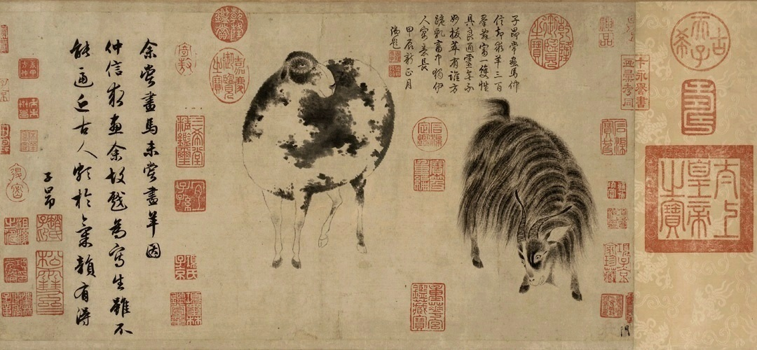 A Sheep and Goat, by Chinese painter Zhao Mengfu. Handscroll, ink on paper, 25.2 x 48.4 cm.